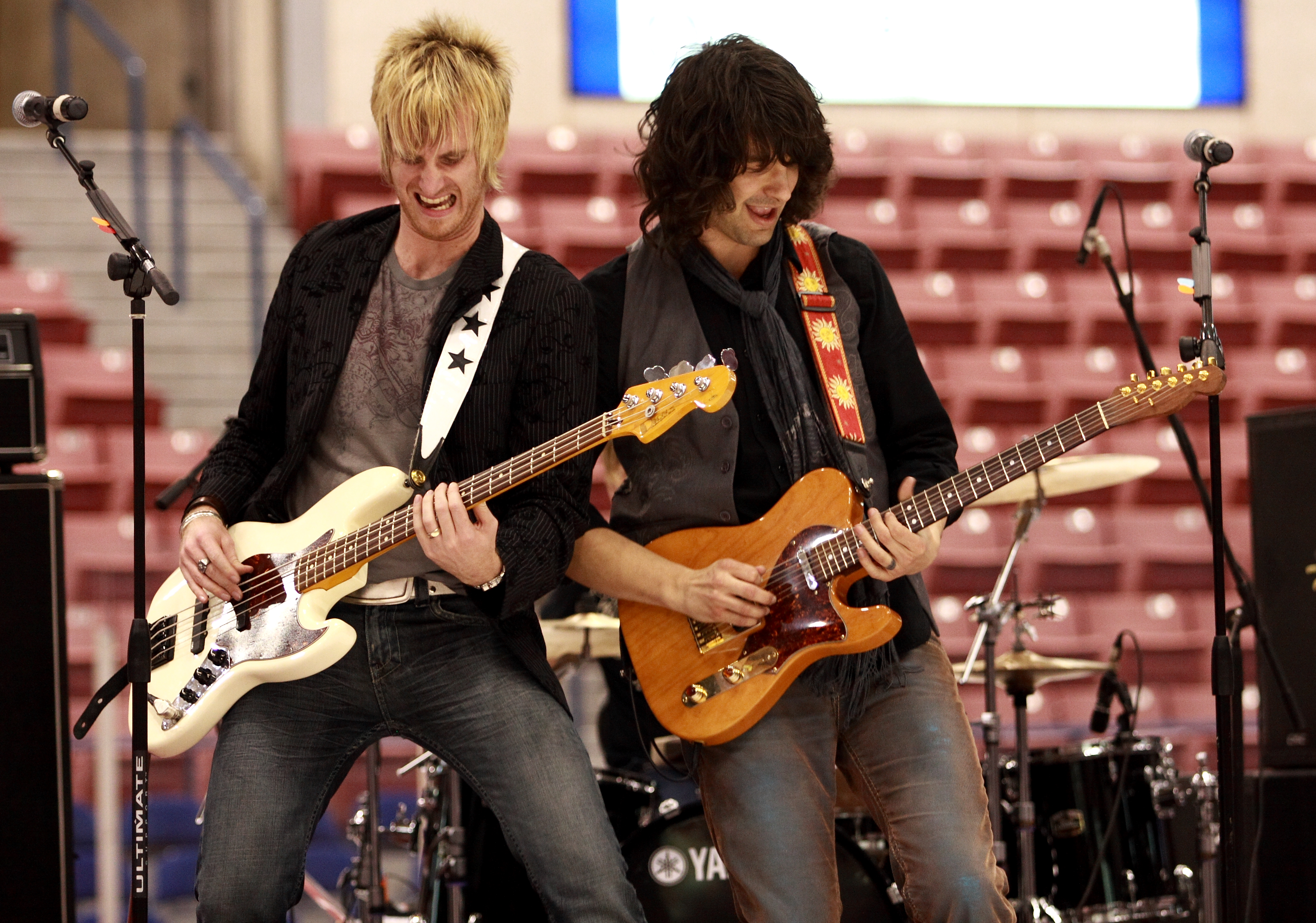 Josh Reedy and Brian Bunn of DecembeRadio at the North Charleston Coliseum in North Charleston, South Carolina, on March 7, 2009.